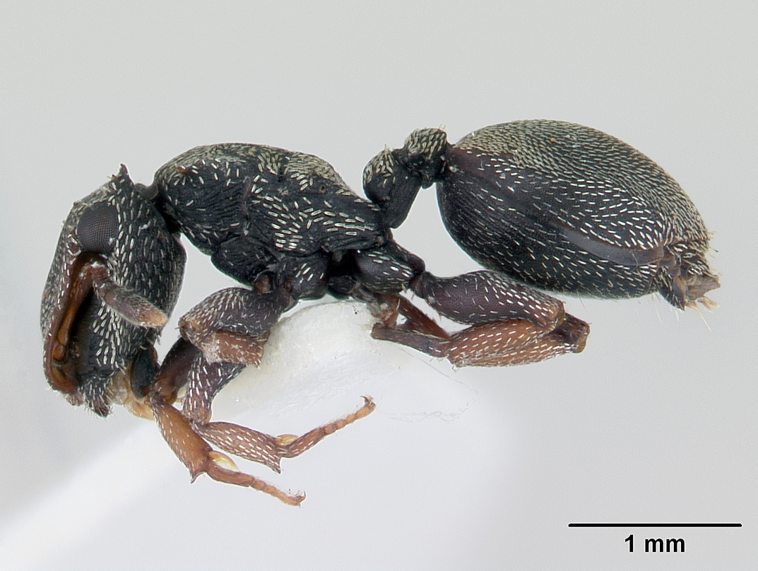 Profile view of ant Cephalotes crenaticeps specimen casent0178646.